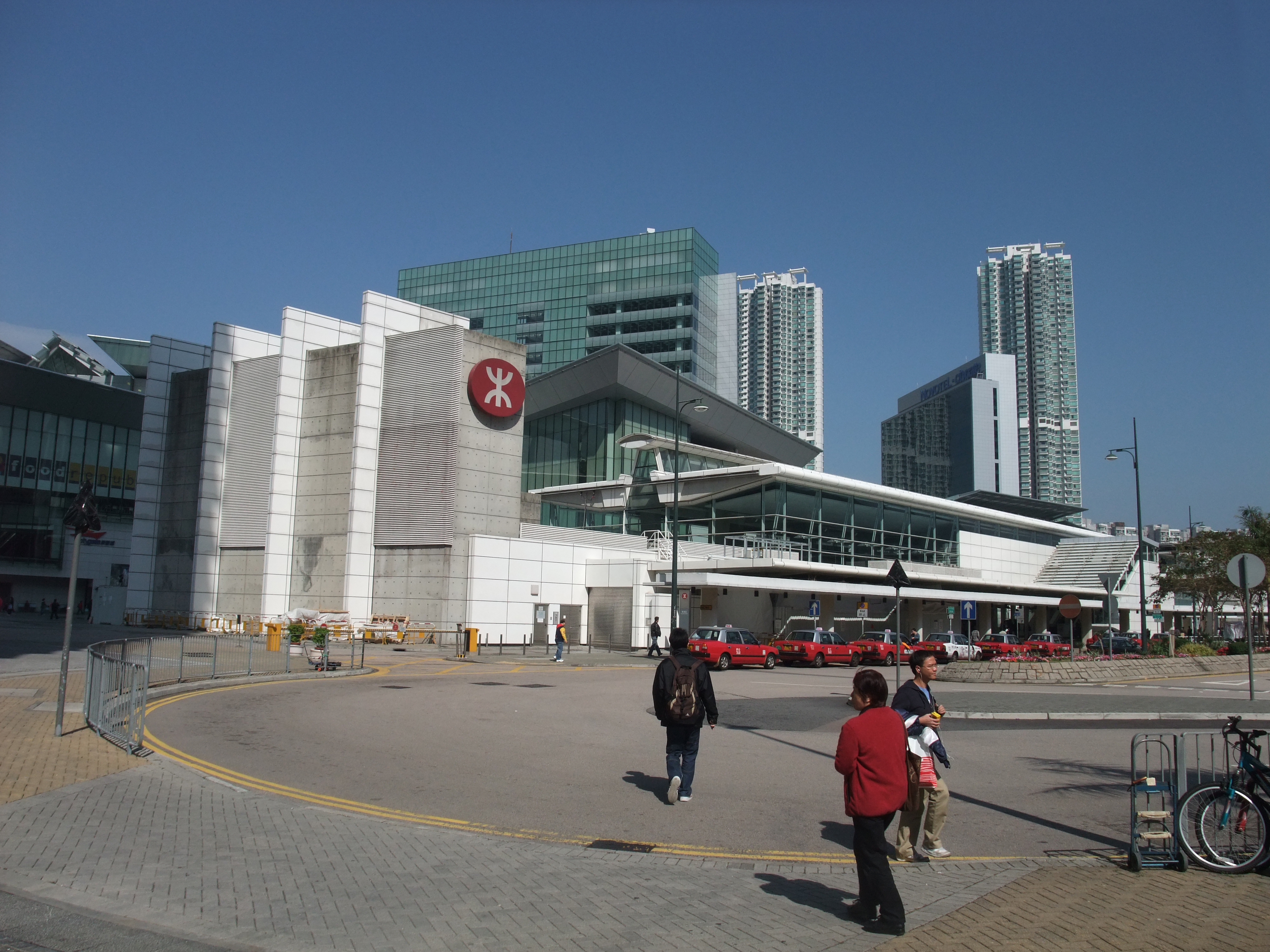 Photo of Tung Chung Station